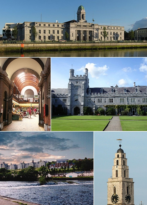 Montage images of Cork city. Top-centre: City Hall. Mid-left: English Market. Mid-right: UCC Quadrangle. Bottom-left: River Lee. Bottom-right: St.Anne's Shandon.